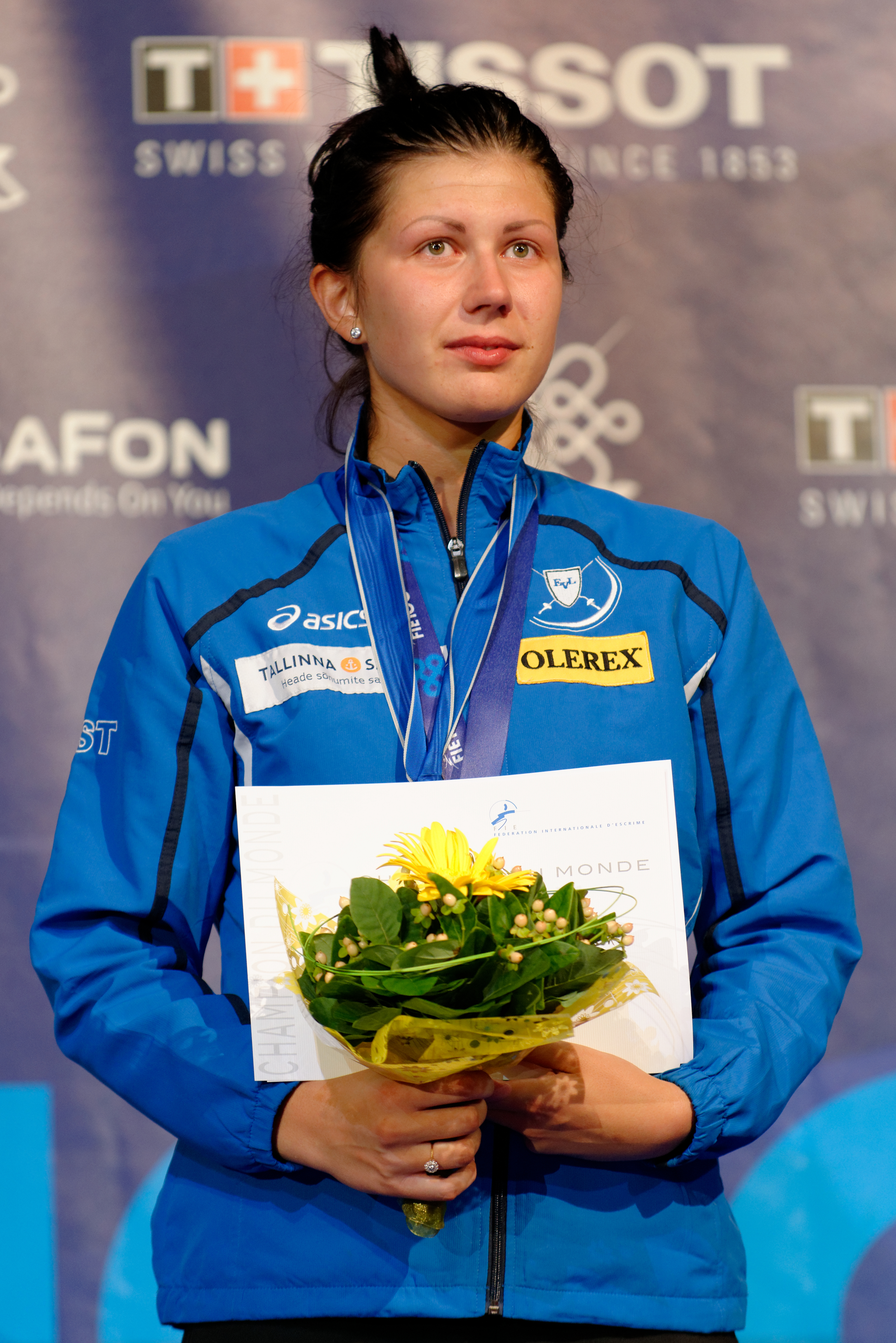 Julia Beljajeva stands on the podium at the women's épée victory ceremony in the 2013 World Fencing Championships 2013 at Syma Hall in Budapest, 8 August 2013.